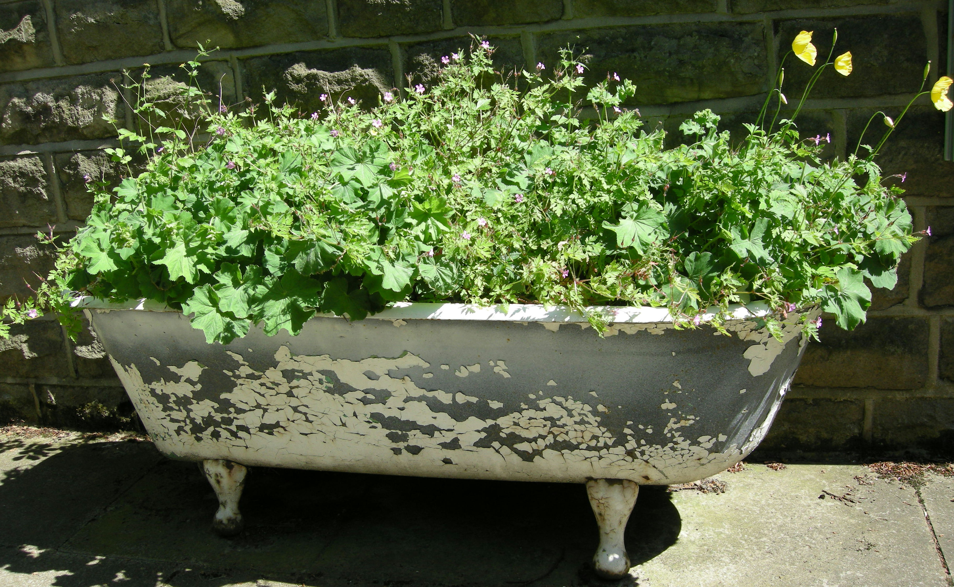 Alchemilla sp., Geum urbanum, Geranium robertianum, and Meconopsis cambrica growing in a bath in the garden at Bracken Hall Countryside Centre and Museum, Baildon, West Yorkshire, England.